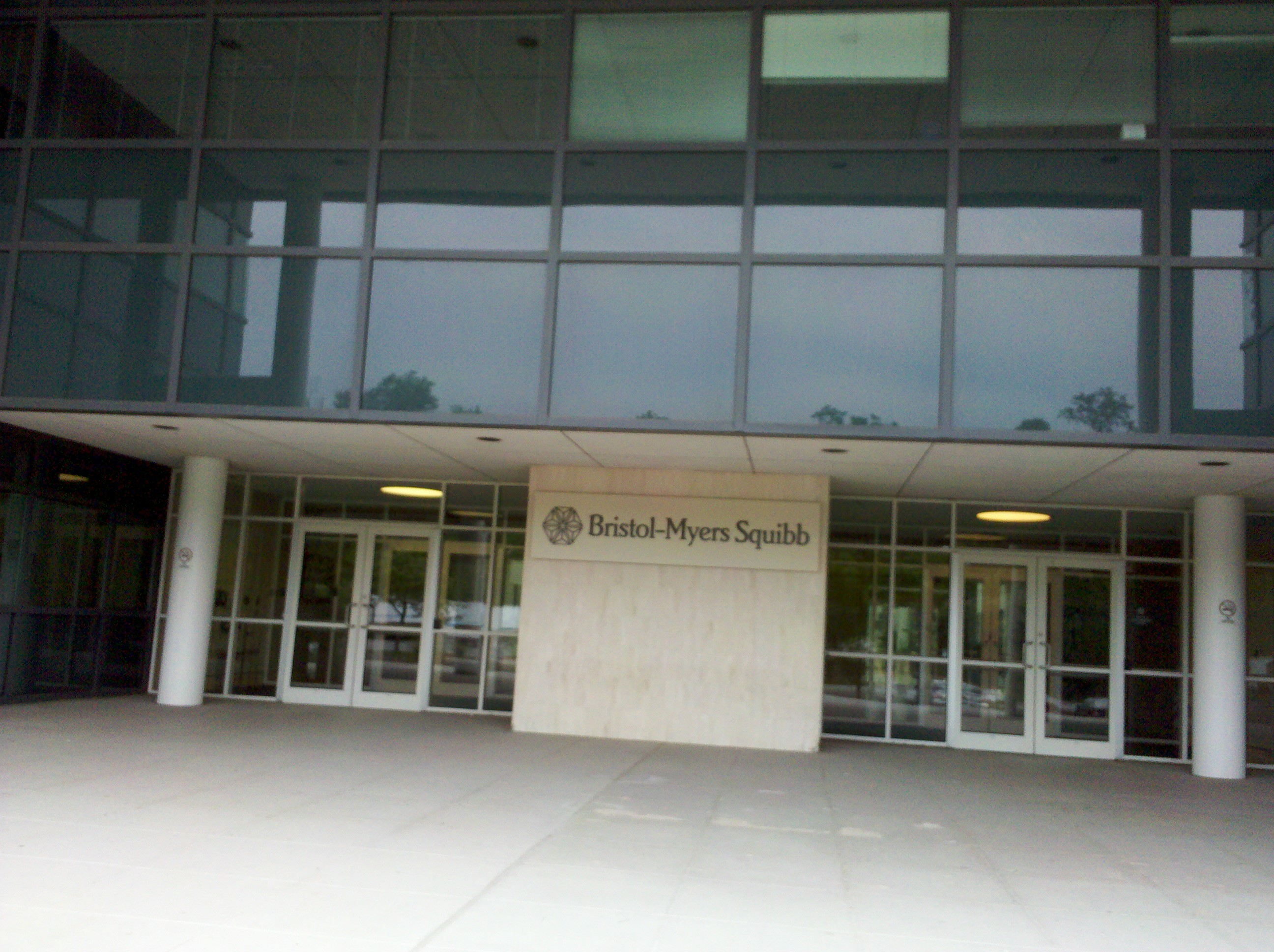 Entrance to the Bristol-Myers Squibb building at 100 Nassau Park Boulevard, as seen in 2010. The address has been recorded as being in either Princeton or West Windsor, New Jersey. This entrance was also used by employees and clients of legal firm Pellettieri, Rabstein & Altman and network performance and security vendor Niksun, Inc., both of whom had their main offices in the building.